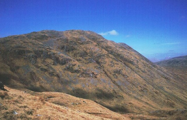 East side of Mam Hael. Looking across the north east ridge of Beinn Morlurgain to the eastern slopes of Creach Bheinn. More rough deer forest on the western side of Loch Etive.